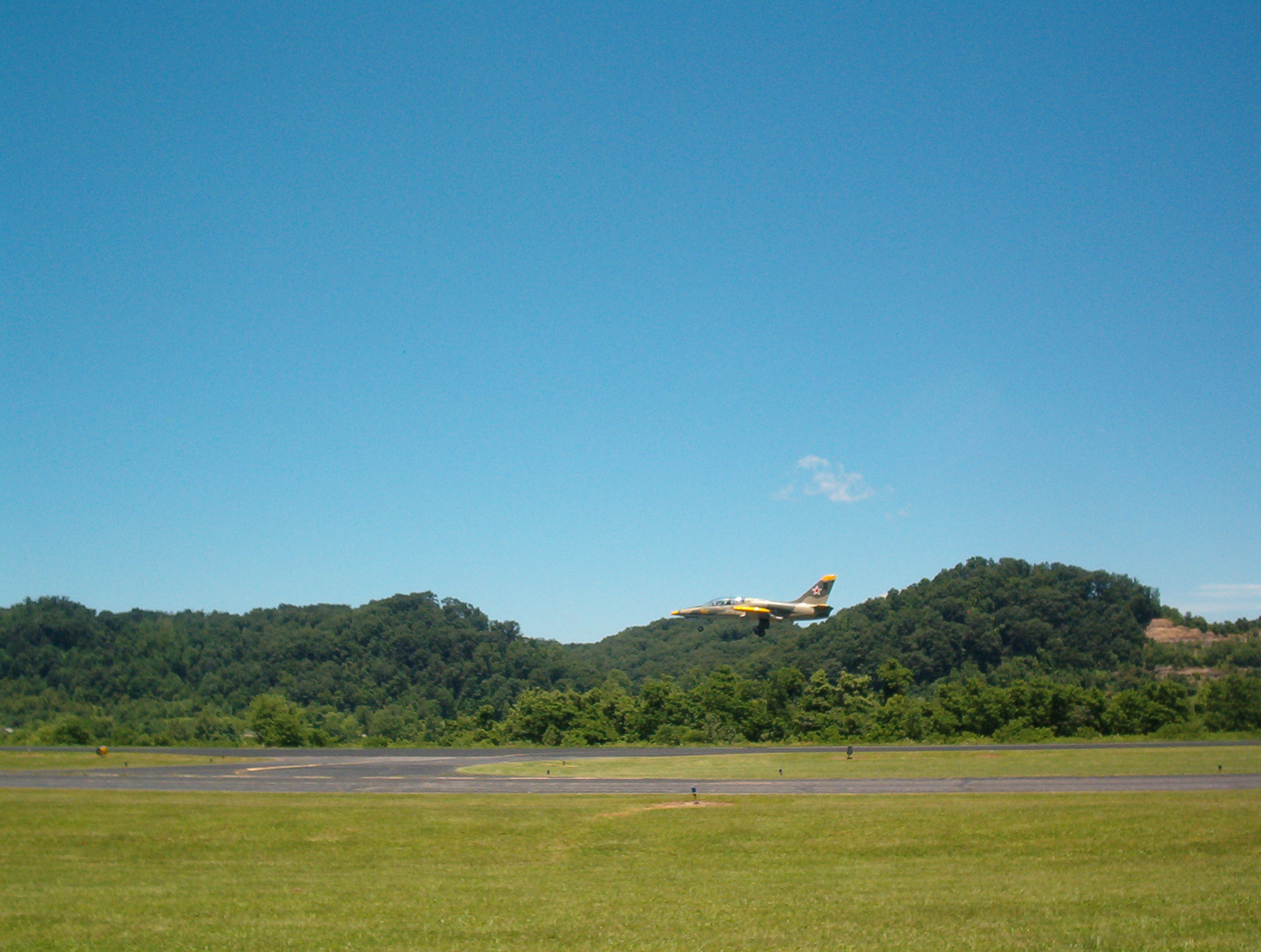 M. Salyers Ashland Regional Airport Saturday, June 21, 2003